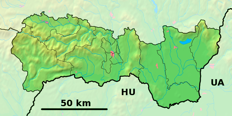 Background map of the Košice Region, Slovakia, ready for the Geobox template, calibrated at Template:Geobox locator Košice Region Outline map of the Košice Region, Slovakia, ready for the Geobox template, calibrated at Template:Geobox locator Košice Region